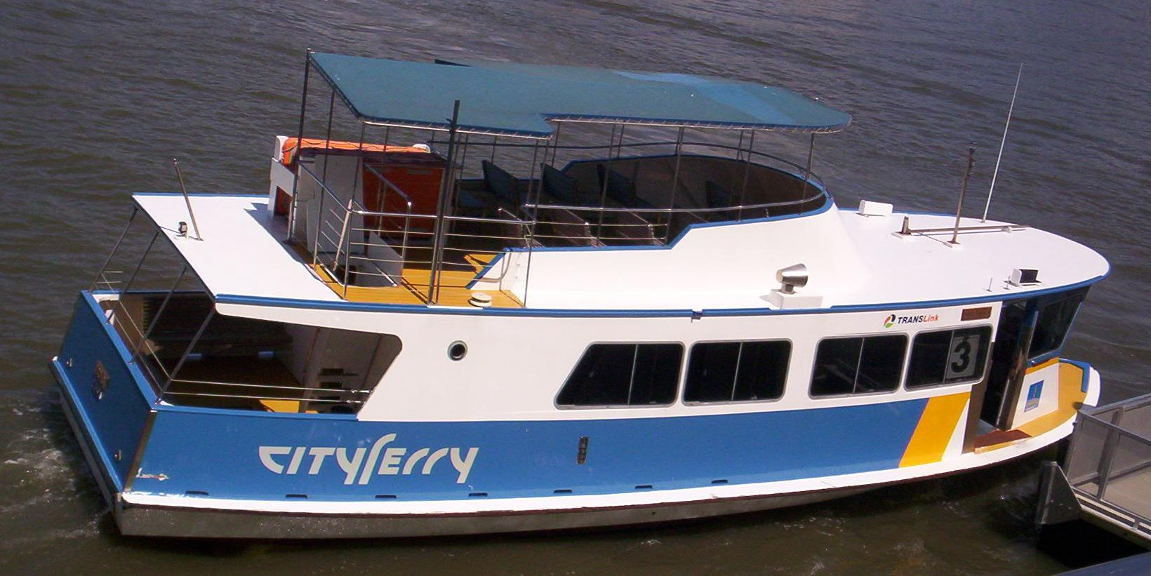 CityFerry on the Brisbane River in Brisbane, Queensland, Australia at CityFerry